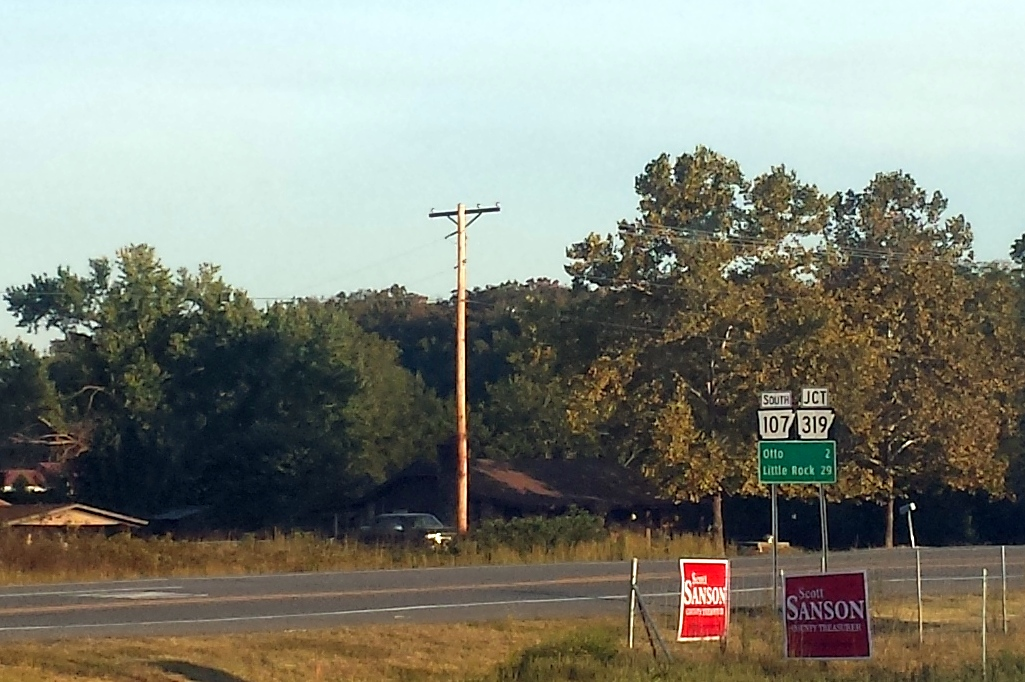 Highway 107 near Otto, AR